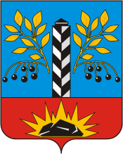 Coat of arms of Cheremkhovo (Irkutsk oblast), adopted by Cheremkhov city administration at March 15, 2007